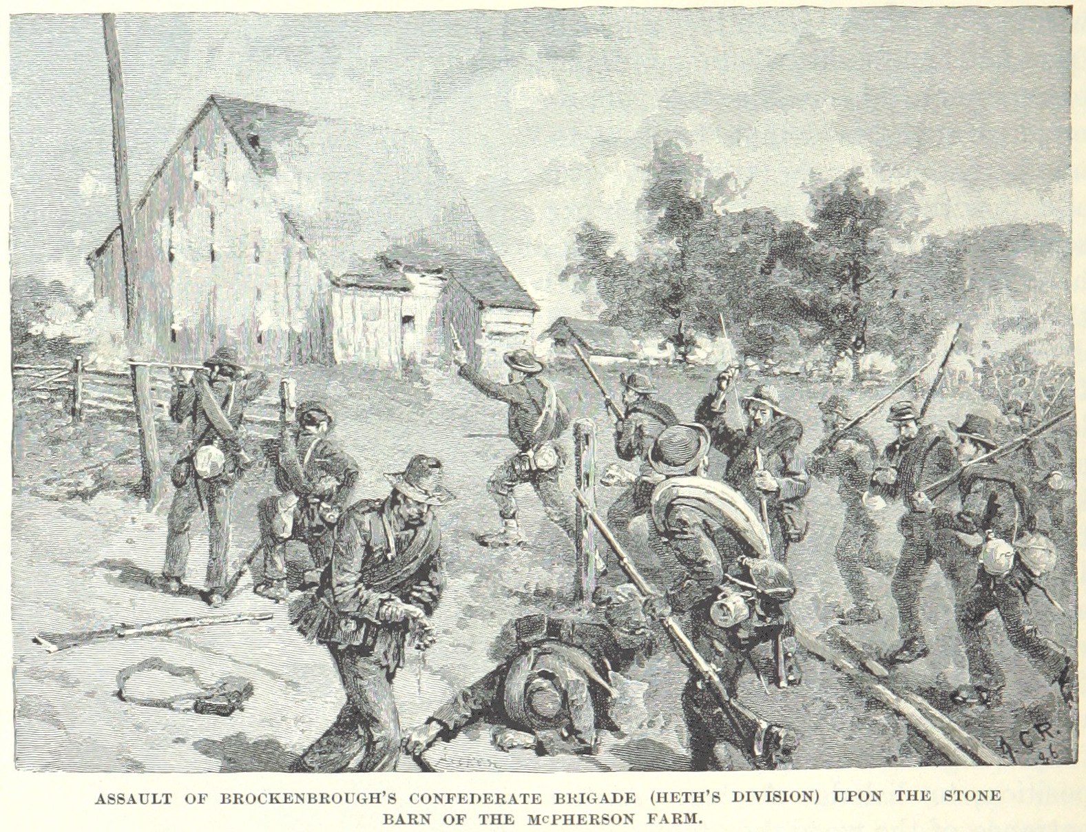 Confederate troops assault the barn at McPherson Ridge during the Battle of Gettysburg.